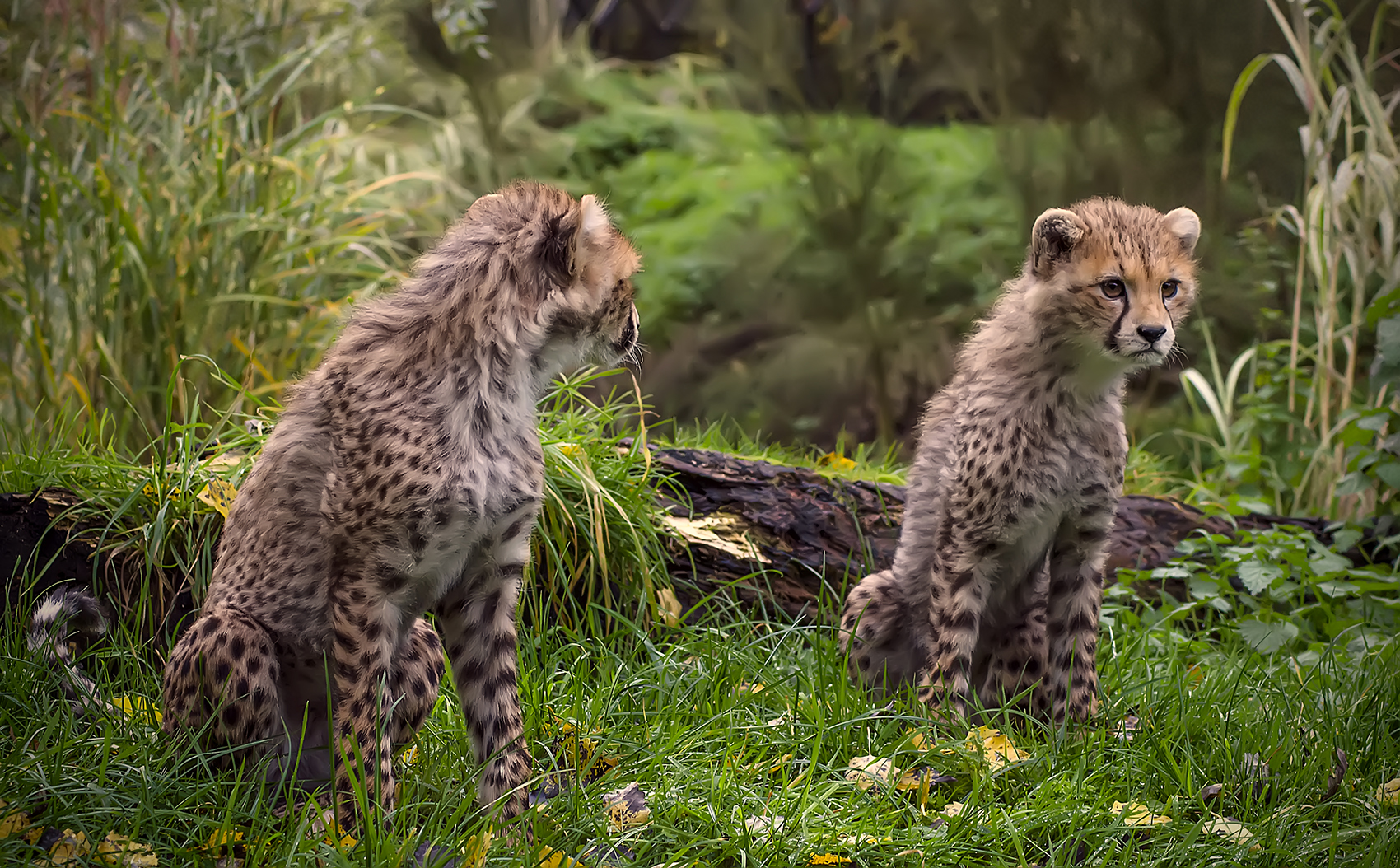 Rare Northern Cheetah Cubs at Chester Zoo